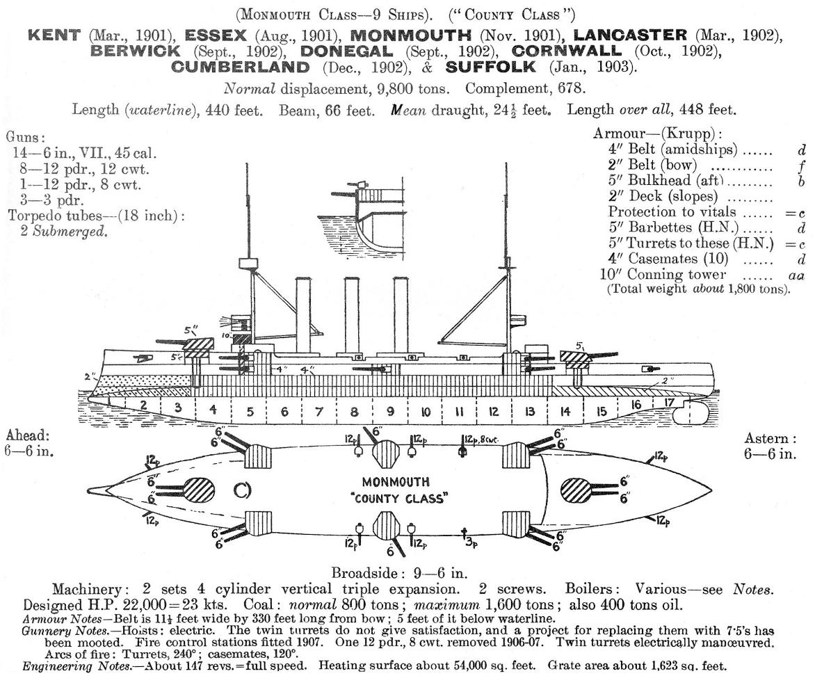 Left elevation and deck plan depicting British Monmouth class armoured cruiser